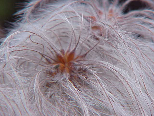 Species: Clematis montana rubens Family: Ranunculaceae Image No. 6